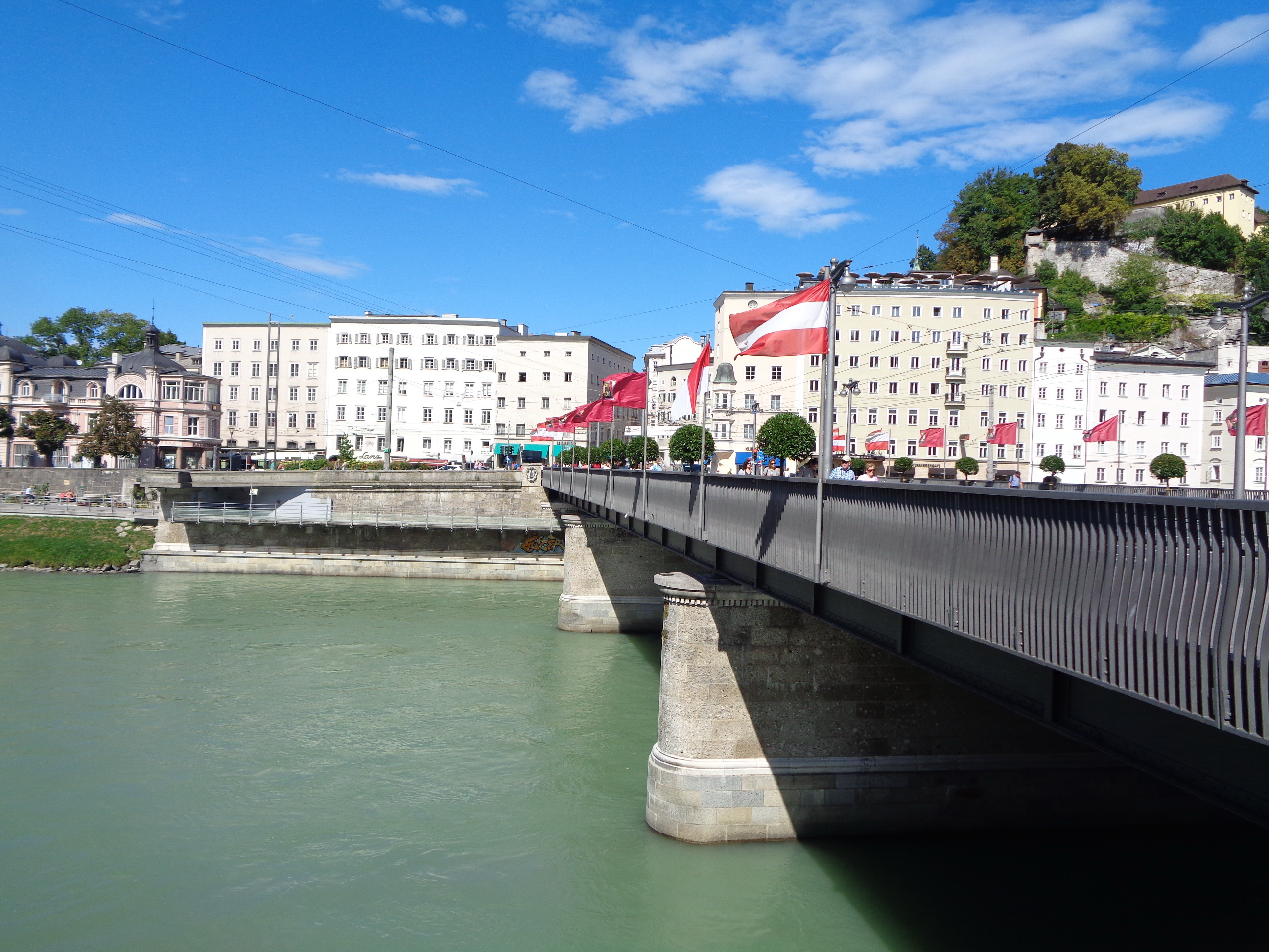 "Staatsbrücke" bridge over the Salzach river in Salzburg, Austria - southwest view